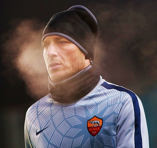 Francesco Totti